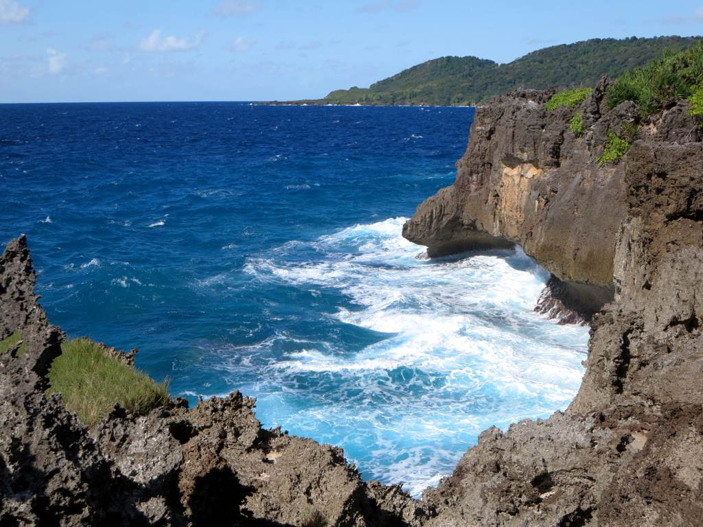 Rugged limestone cliffs run along much of the shoreline of Christmas Island, Australia.